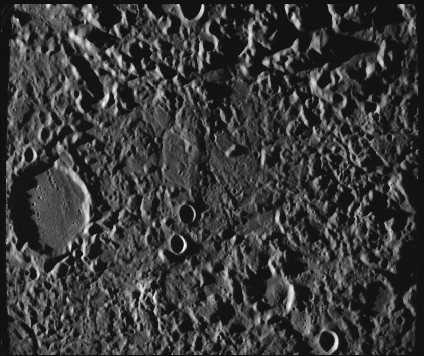 The so-called 'Weird terrain' on Mercury, at the antipodal point of the Caloris Basin. From The center of the photo is at coordinates 31 S and 17 W, and this is east of the crater Petrarch.